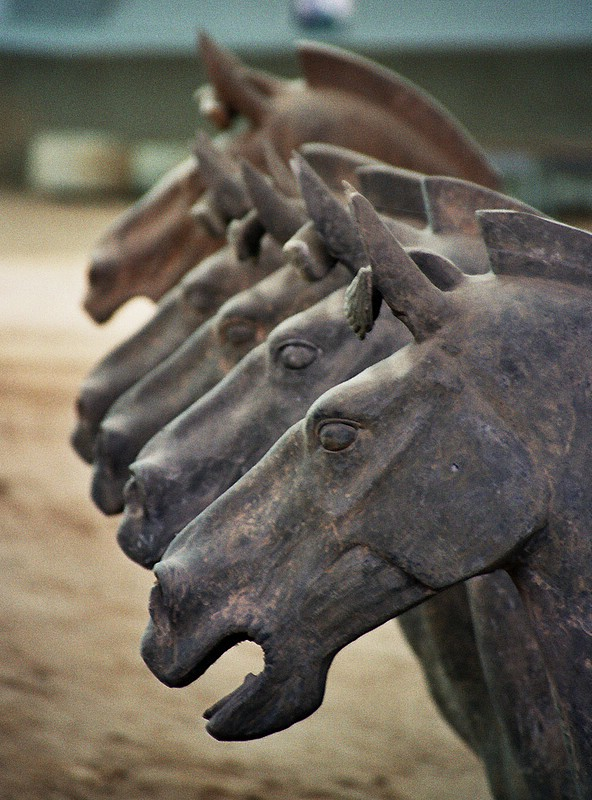 A row of horses, part of the Terracotta Army of Xian